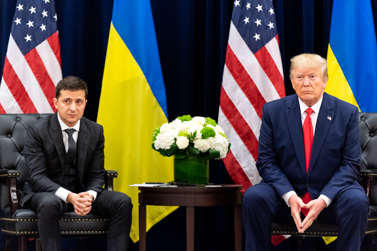 President Donald J. Trump participates in a bilateral meeting with Ukraine President Volodymyr Zalensky Wednesday, Sept. 25, 2019, at the InterContinental New York Barclay in New York City. (Official White House Photo by Shealah Craighead)